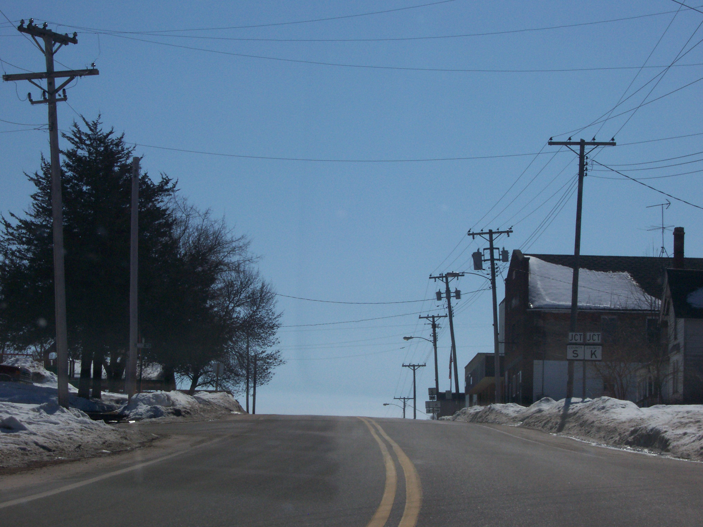 Looking south at the center of Lime Ridge, Wisconsin, USA while travelling on County Highway K. Taken March 11, 2007 by myself.